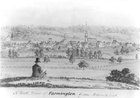 Farmington, Connecticut in the 1830s. Northwest View of Farmington from Round Hill by John Warner Barber (1798-1885) Sketch for Barber's Historical Collections of Connecticut (1836) "Seen from across the Farmington River, includes the figure of the artist sketching," according to the Web site of the Connecticut Historical Society. Description: Picture: Connecticut Historical Society Ref. # 1953.5.96 N1828